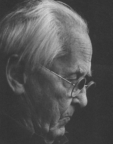 Aa. Remfelt looking at photographs in his home 1979. Photo by B.M. Askholm